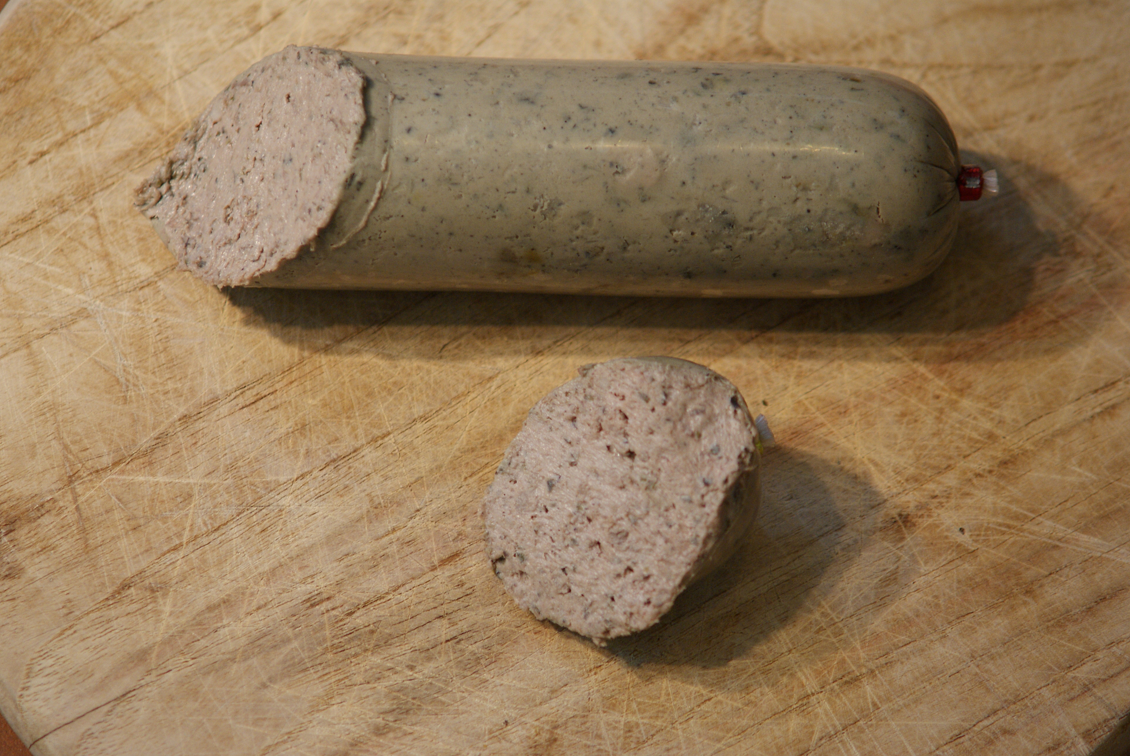 Liverwurst from Palatinate in Germany Made by Kalnik in Billigheim Weight: 200g